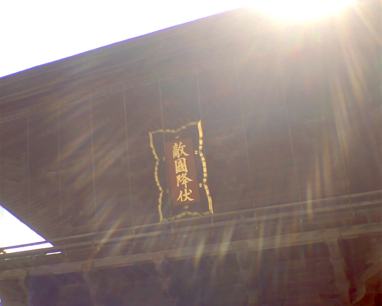 This photograph is the gate on a jinja named Hakozakinomiya (or Hakozaki-gu, 筥崎宮) , in Fukuoka, Japan, and has a lot to do with Genkō.